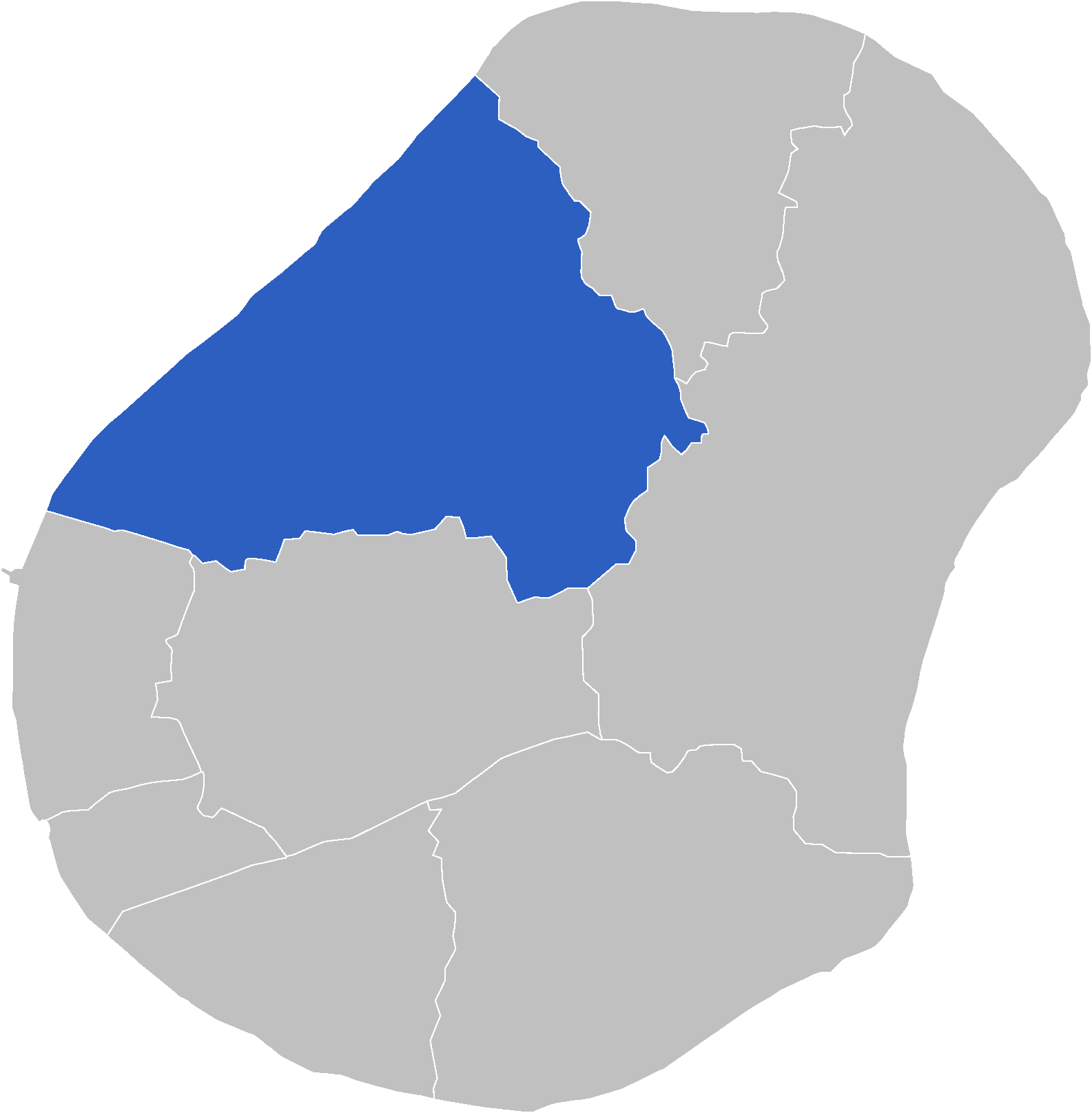 Location map of Unbenide constituency, Nauru